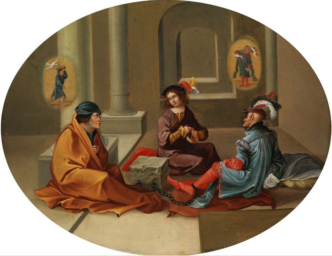 Joseph interprets the dreams of two prisoners (Genesis 40). Oil on copper, 26.5 x 34.5 cm